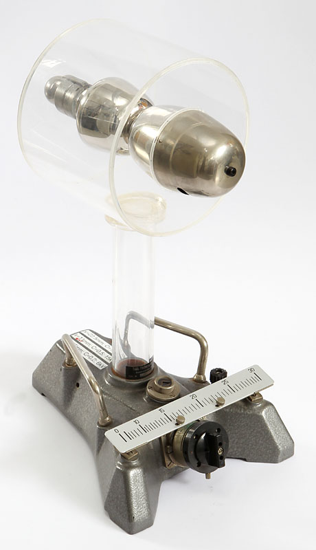 Electrostatic voltmeter according to Starke and Schröder. The two electrodes can be seen within the Plexiglas protective housing, the mirror assembly is integrated in the front elektrode. The lamp is built into the foot assembly where also the measuring scale can be seen.